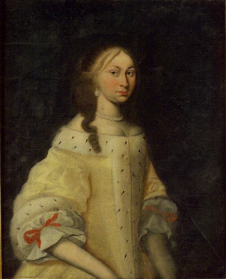 Portrait of a women identified as Princess Maria Elizabeth of Sweden (1596-1618)